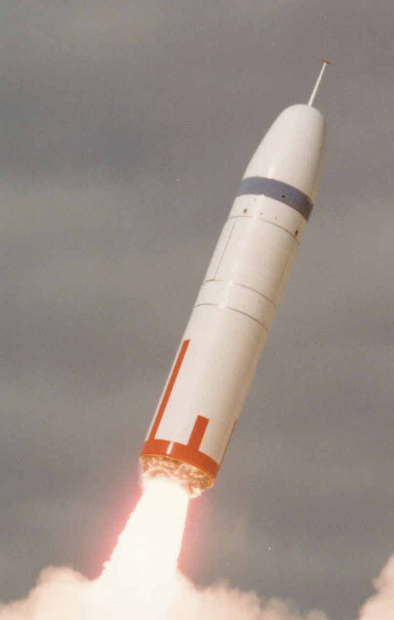 Cropped version of this picture